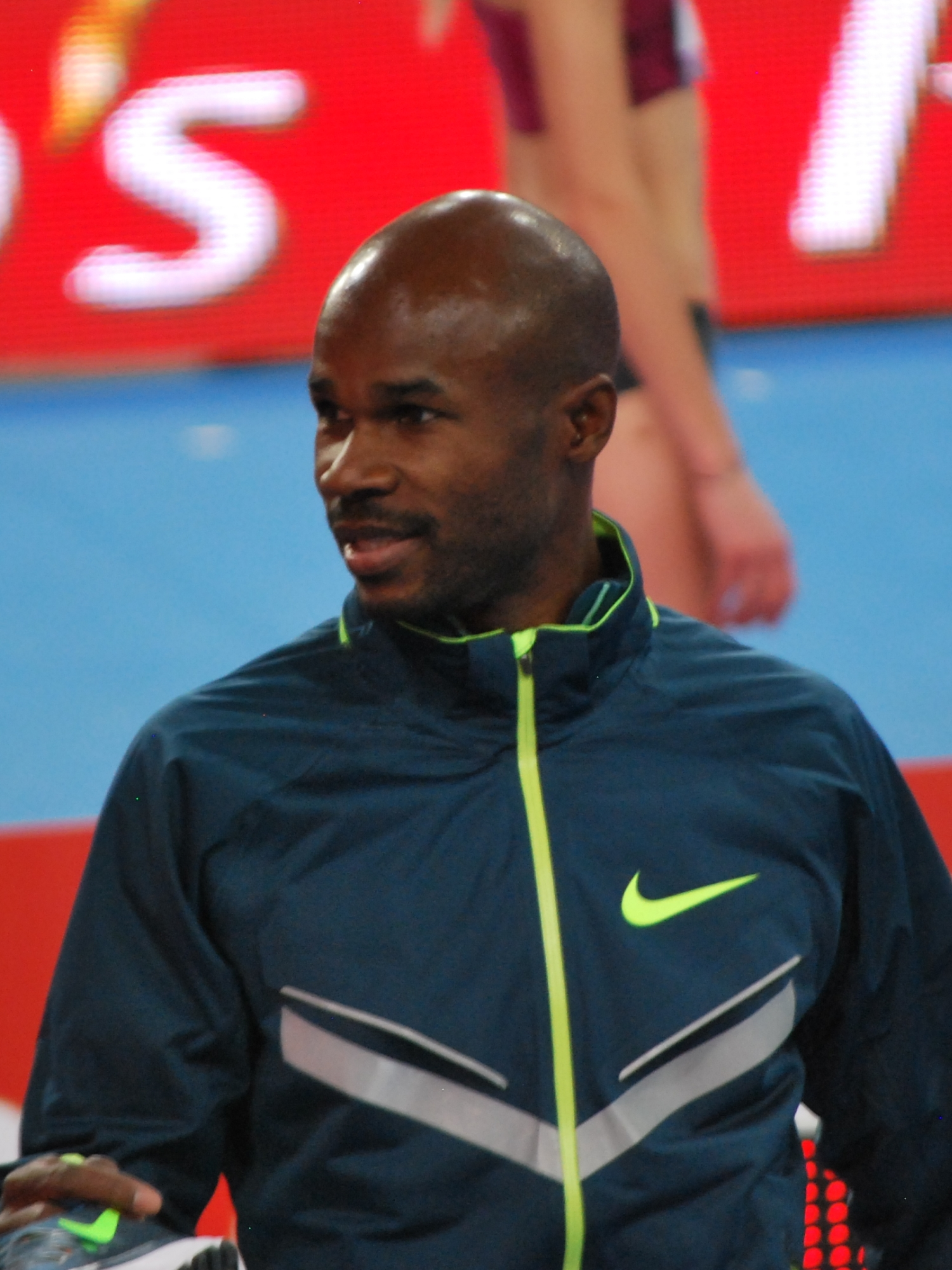 Pedros Cup 2015 Łódź, Kim Collins, sprinter from St. Kitts & Nevis